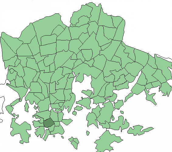 Districts of Helsinki, Kamppi highlighted - new version